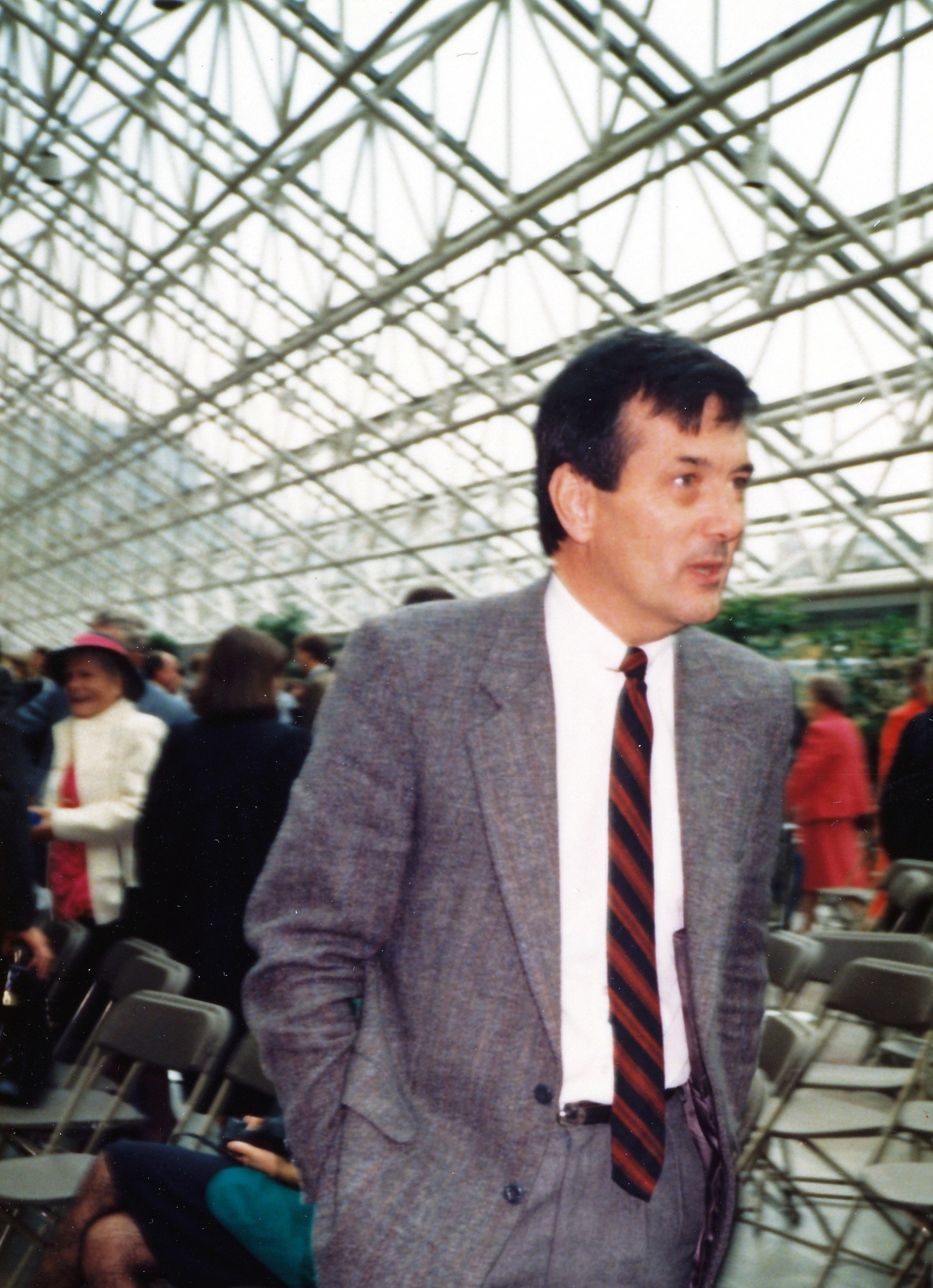 David Crawley in Vancouver 1988